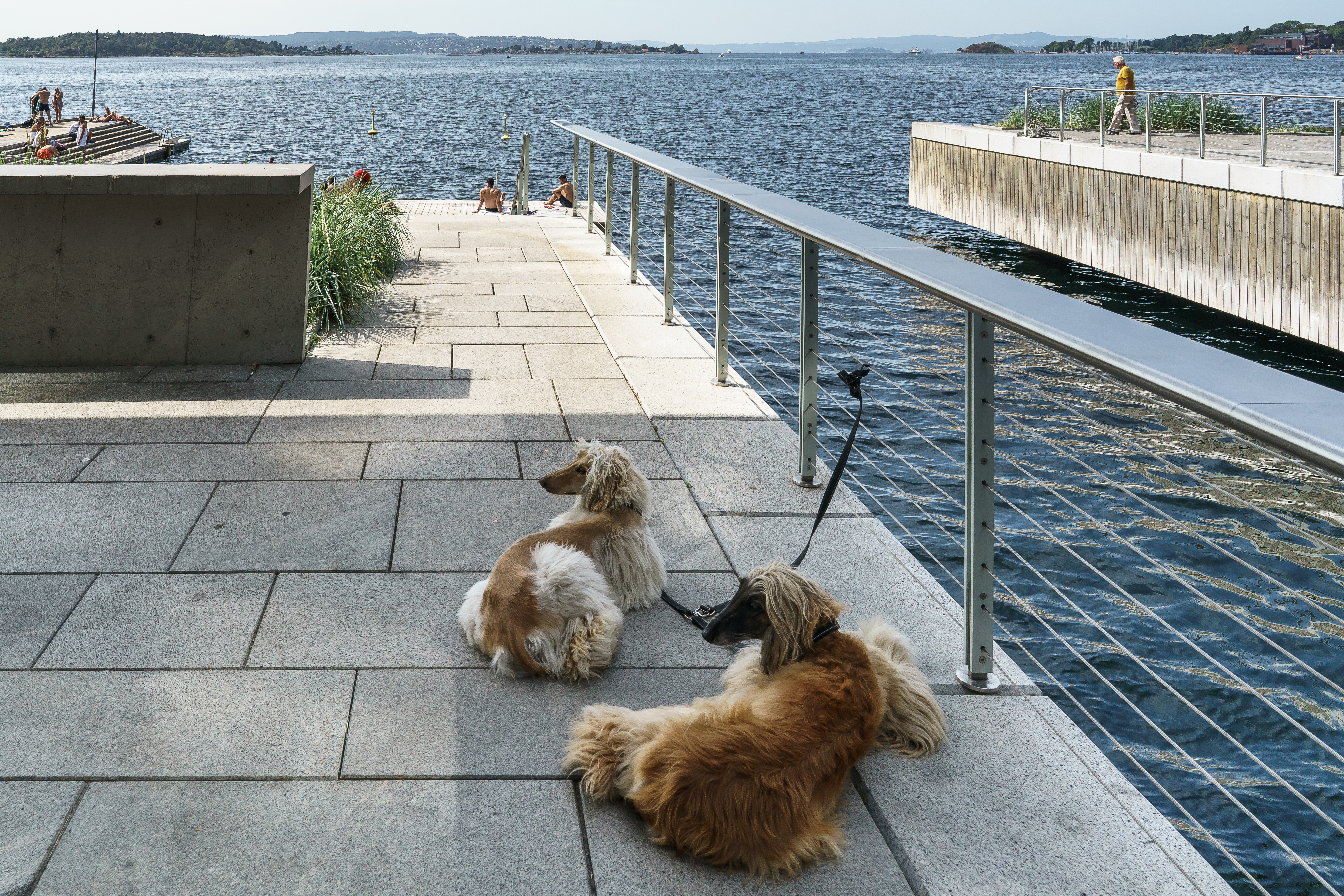 Kavringen brygge, Oslo - public beach